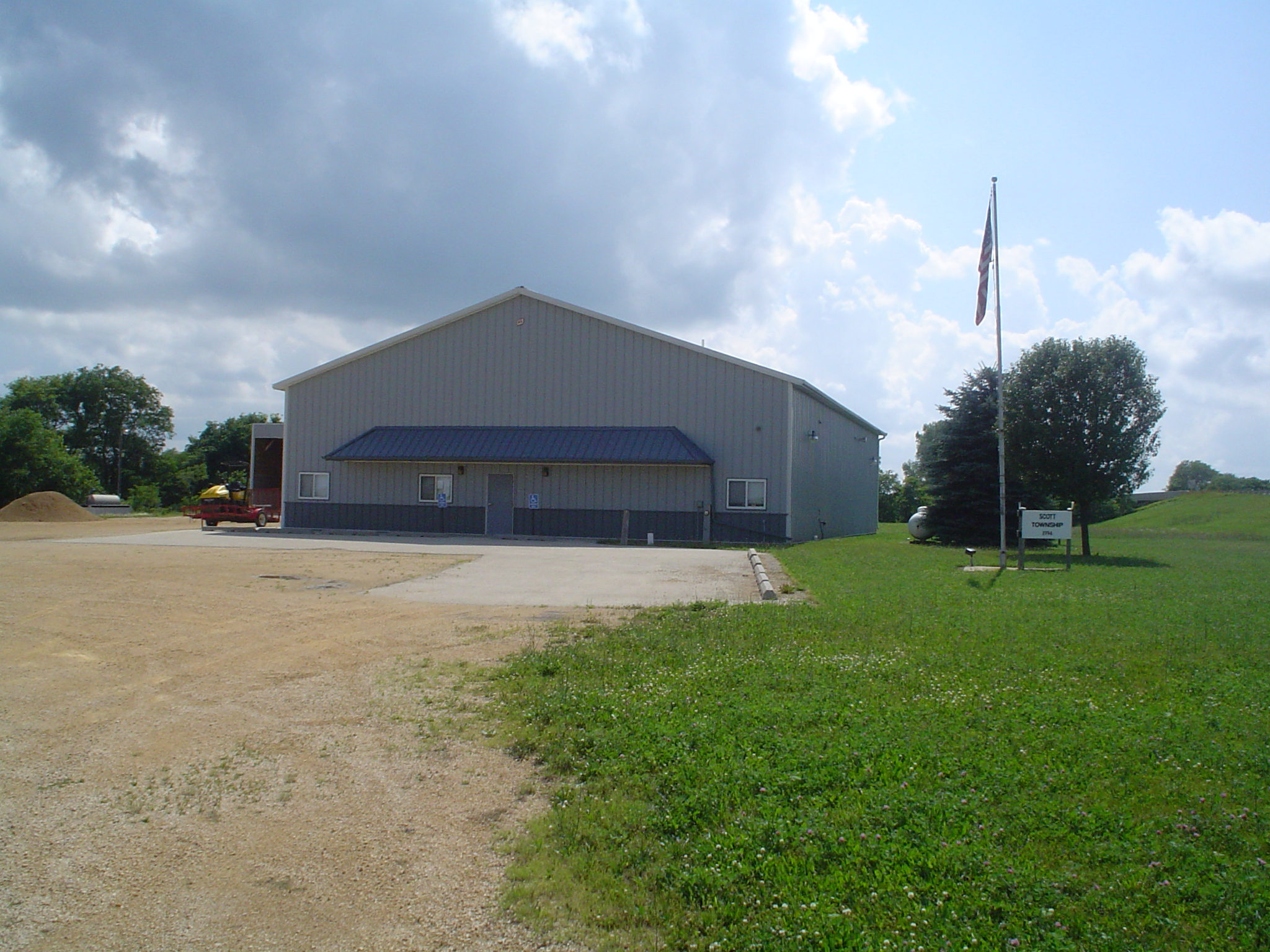 Scott Township Building on the west side of Davis Junction, Illinois, USA.